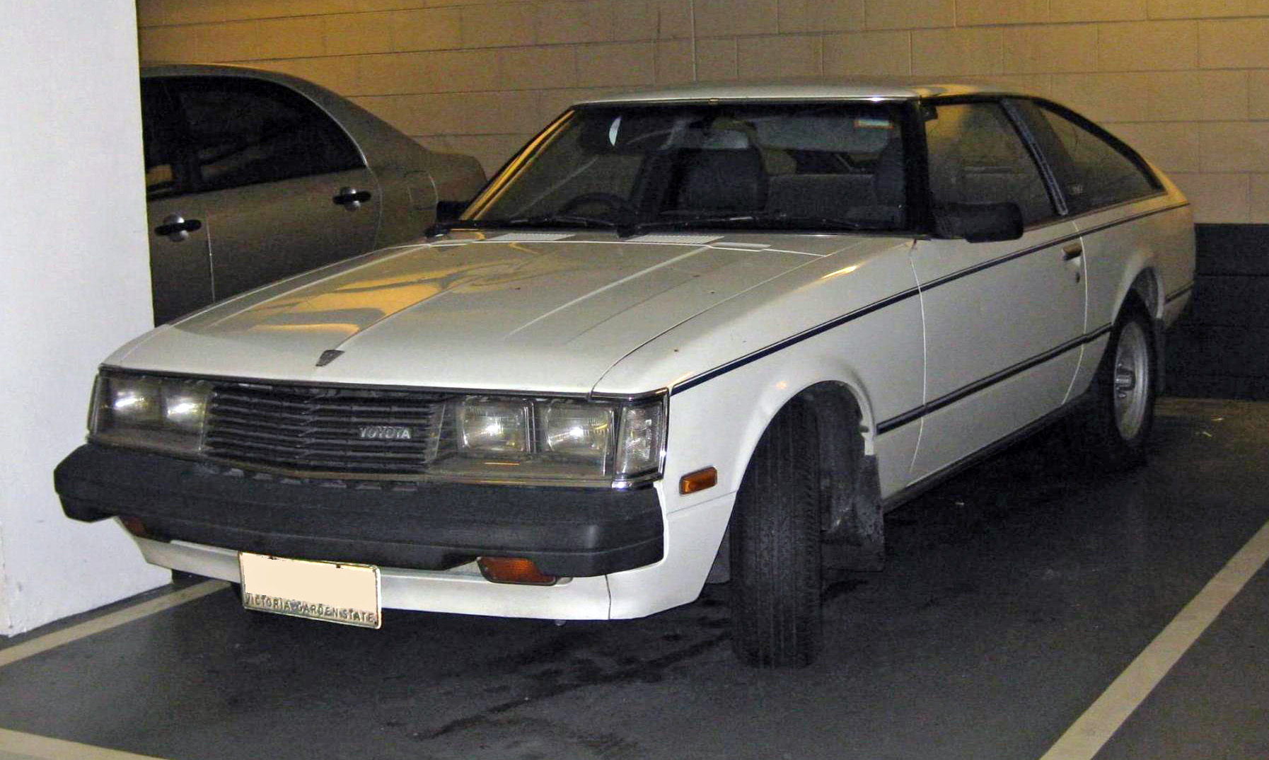 1981 Toyota Celica Liftback 2000LT (RA40), photographed in Melbourne, Australia.